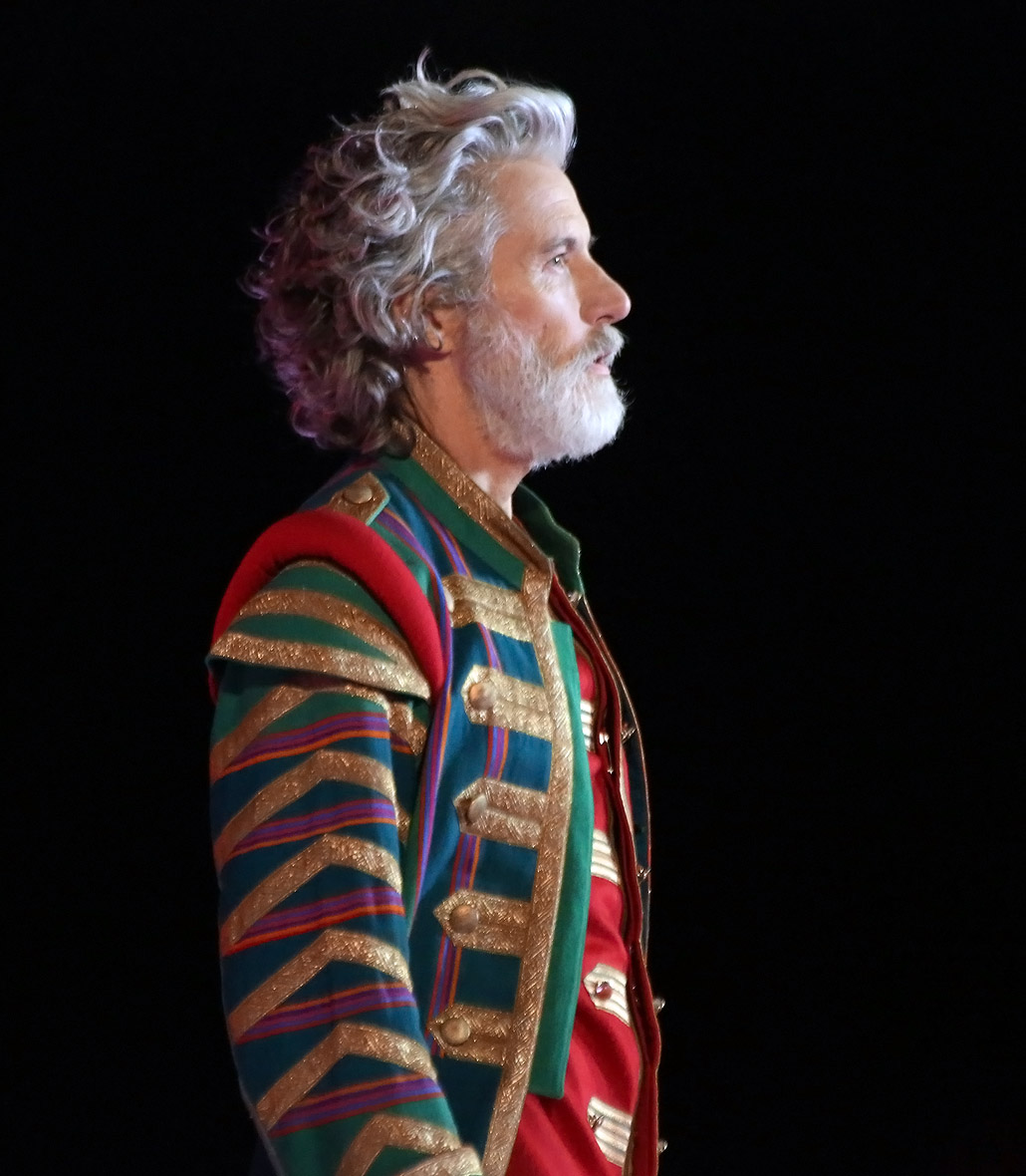 Aiden Shaw, fashion show by Roberto Cavalli, opening of Life Ball 2013 at the city hall of Vienna, Vienna, Austria.